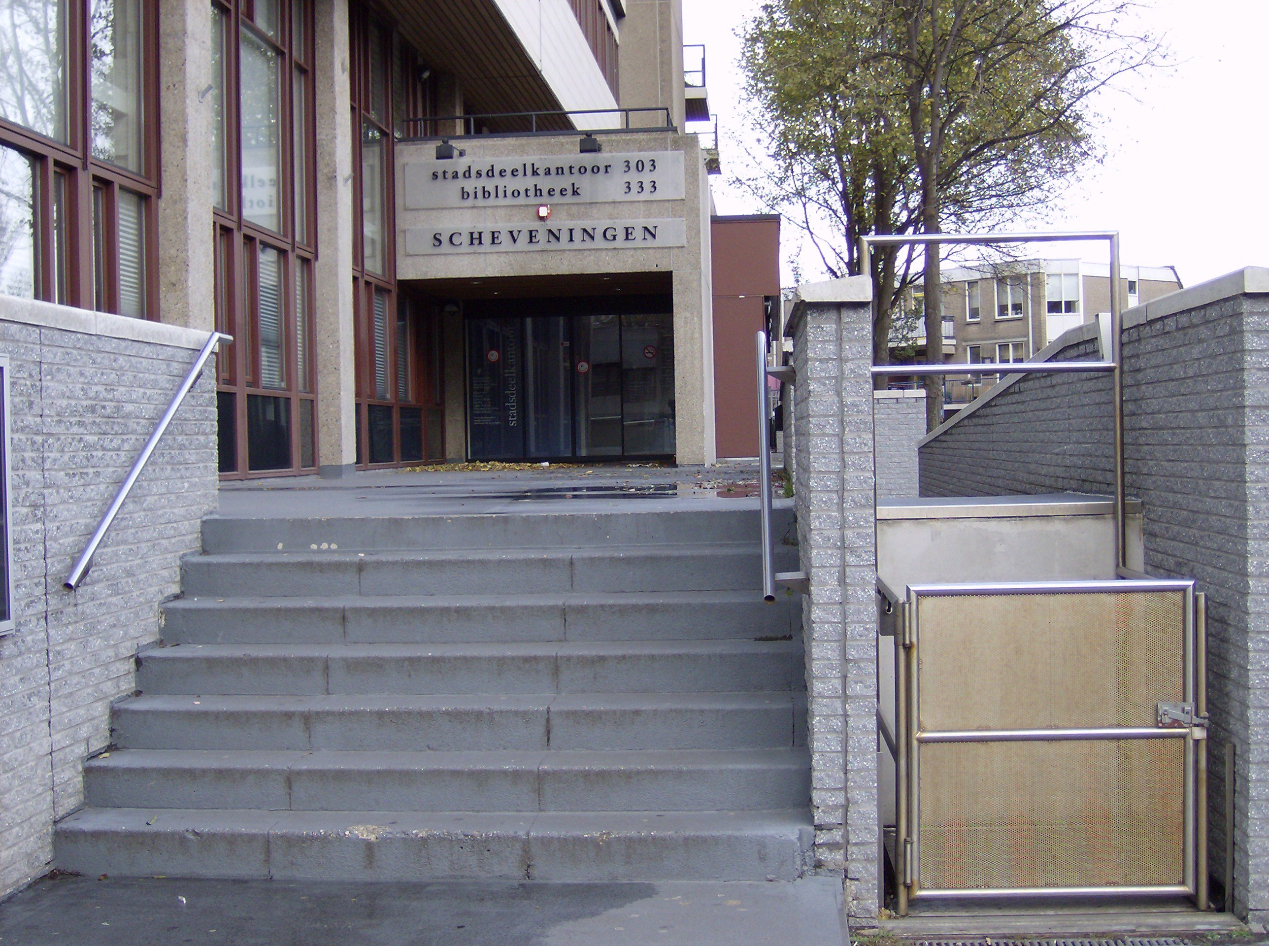 City's part office - The Hague, Scheveningen